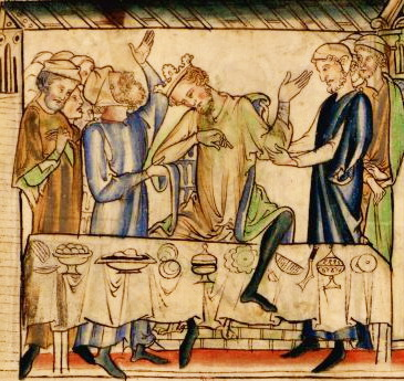 Death of King Harthacnut at a wedding feast. (Cambridge University Library, Ee.3.59, fo. 7r)